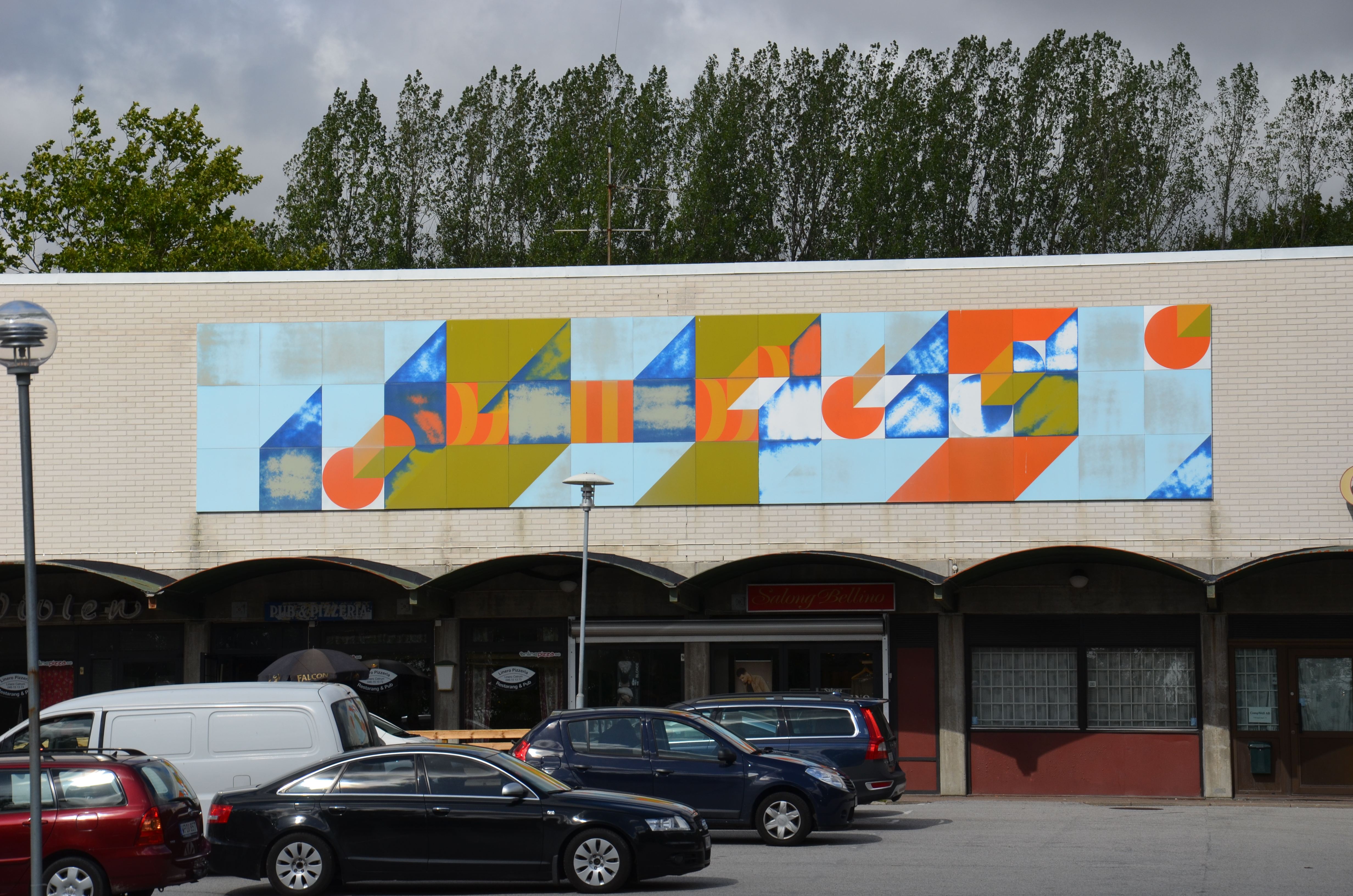 Beck & Jungs Kuber i förvandling, silkscreentryck på perstorpsplatta,1974, södra fasaden på centrumhuset, Linero, Lund